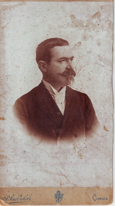 Portrait of SMAC member Stoyan Mihaylovski from Elena